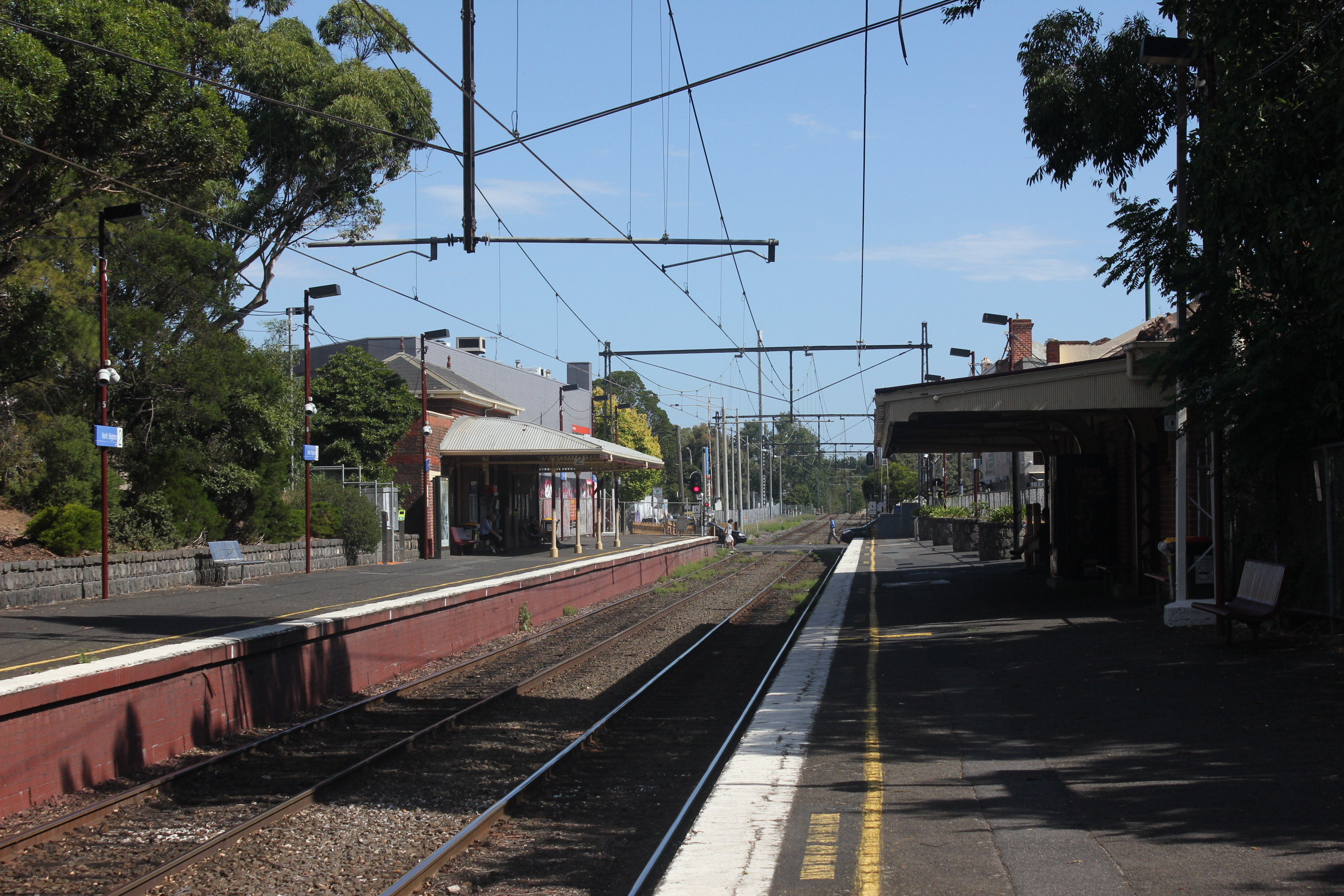 North Brighton station, looking towards Sandringham.